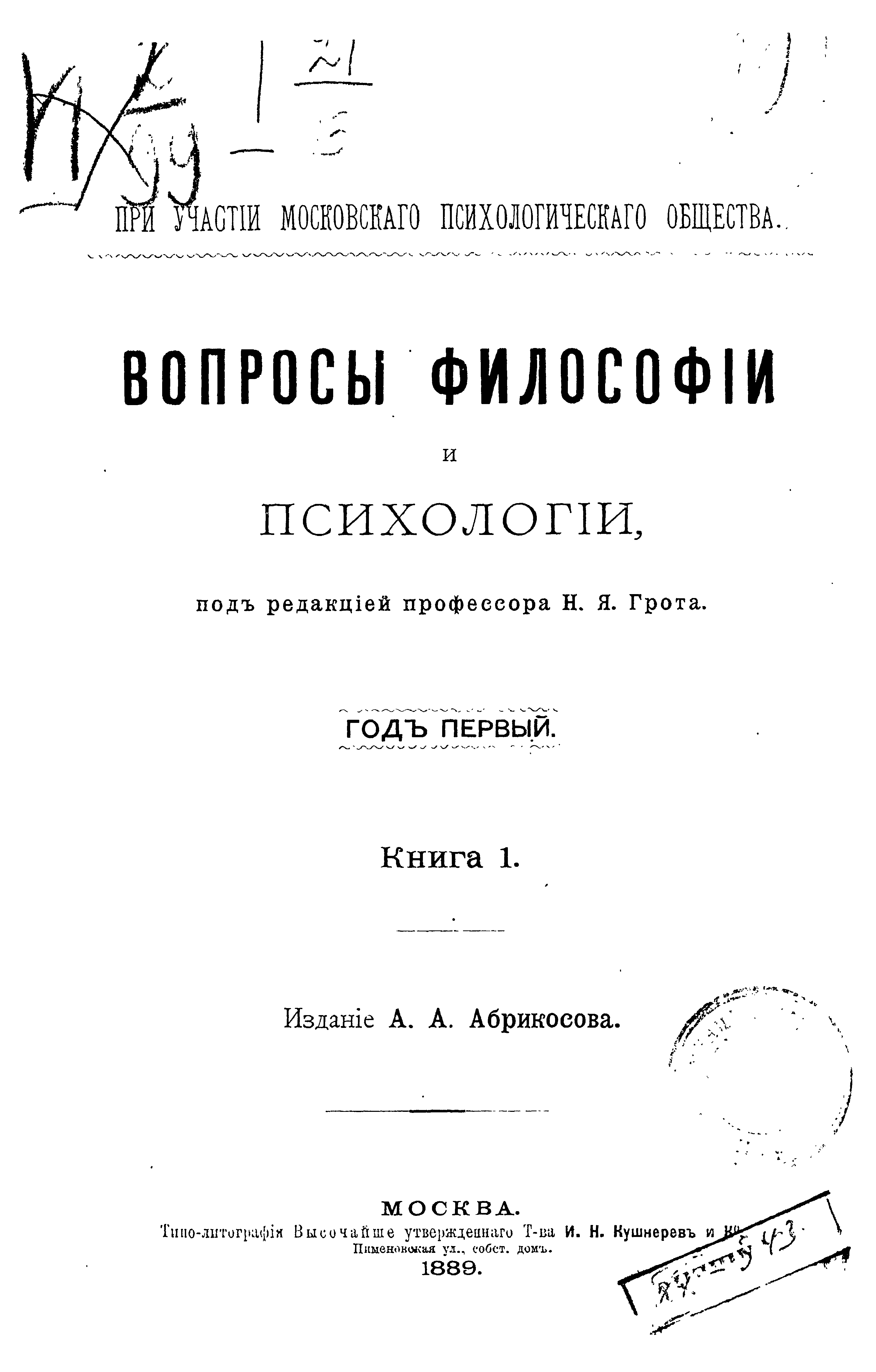 Cover of Journal “Вопросы философии и психологии” (Russia, 1889)